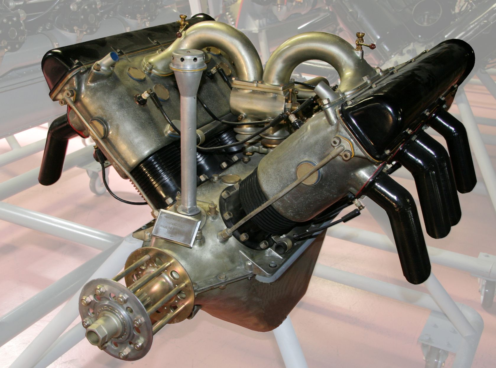 A Hispano-Suiza Type 31 V-8, also known as the Hispano-Suiza 8Aa (MAE PAris)